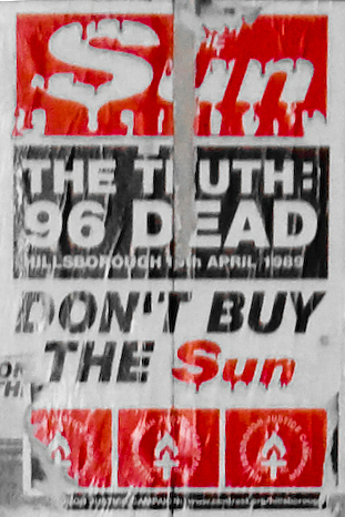 Poster against "The Sun" newspaper in Liverpool (original subtitle) The Sun's sales on Merseyside are still low - 20 years on. Never Forget. This was after the Hillsborough Memorial Match involving ex-LFC stars such as Dalglish, Rush, Molby, Hansen and Tranmere's John Aldridge;) There was a communal singing of 'You'll Never Walk Alone' at the finale.